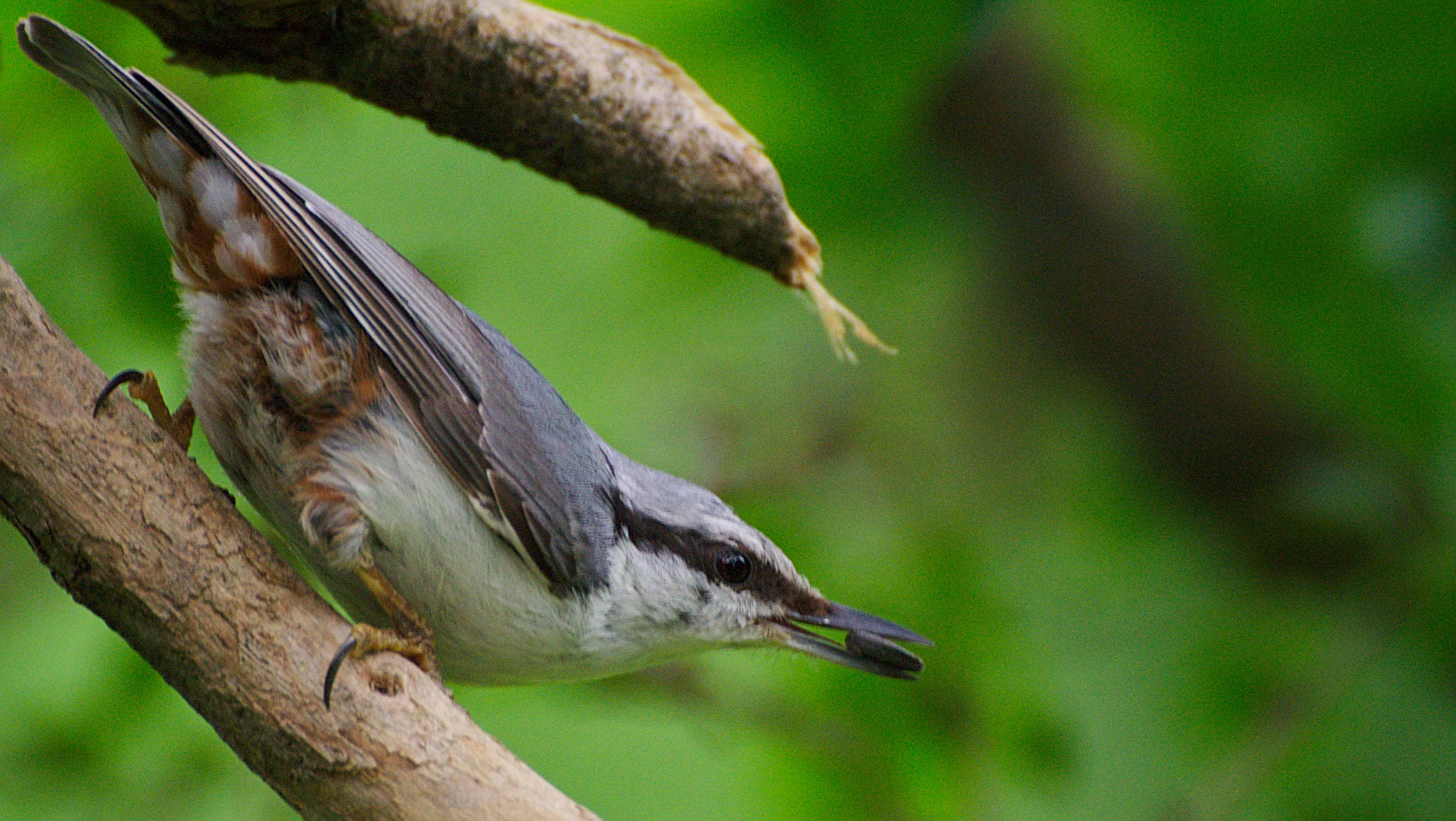 Eurasian Nuthatch Sitta europaea europaea, adult, Arvika, Sweden